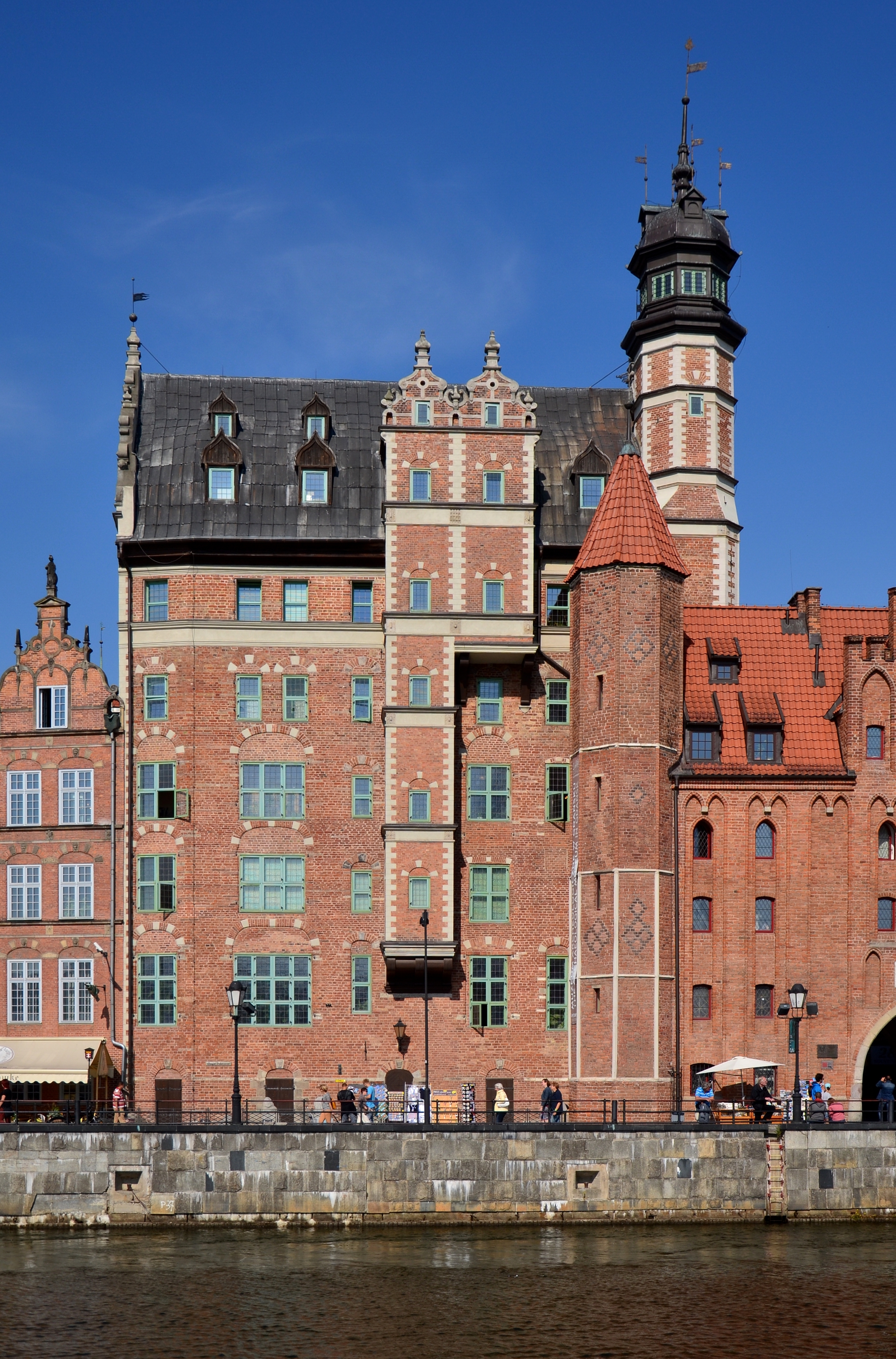 House of Research Society in Gdańsk